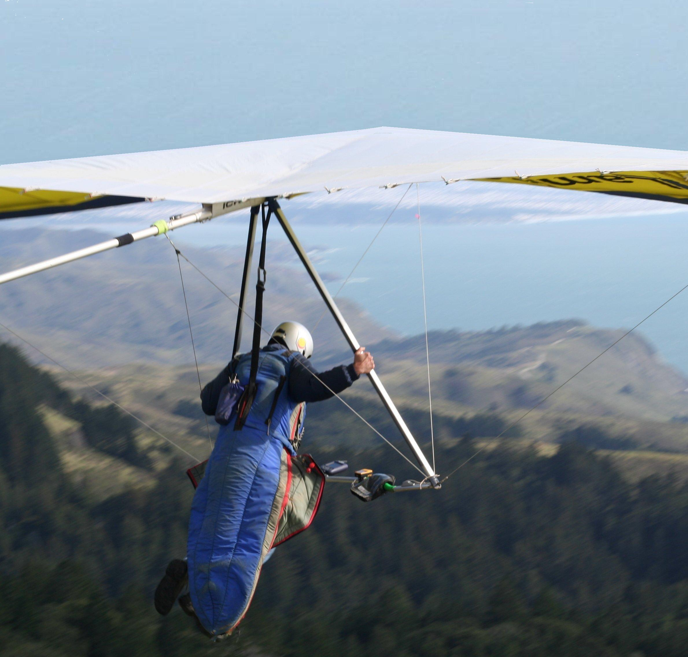 Photographed by and copyright of (c) David Corby (User:Miskatonic, uploader) 2006